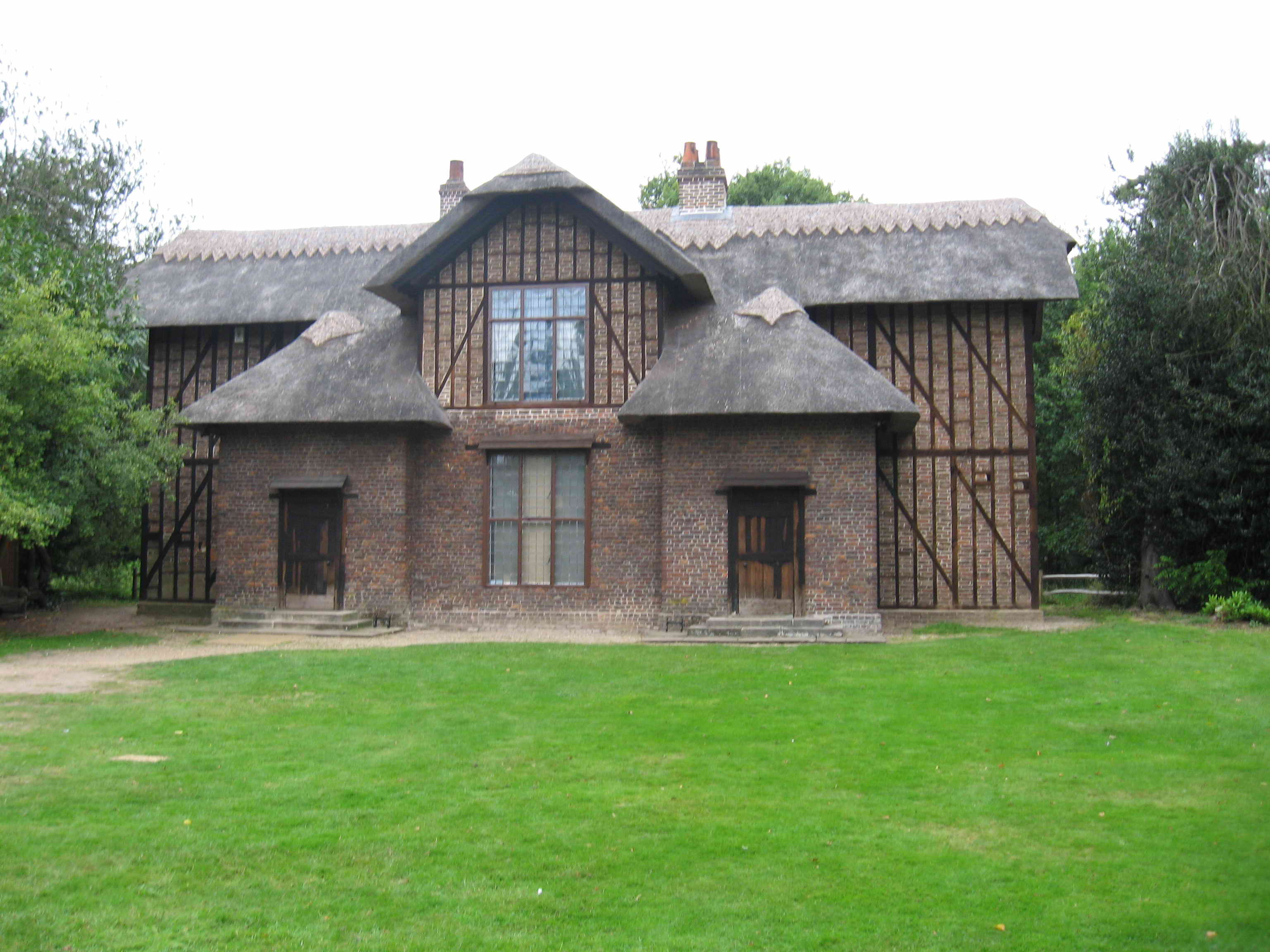 Queen Charlotte's cottage